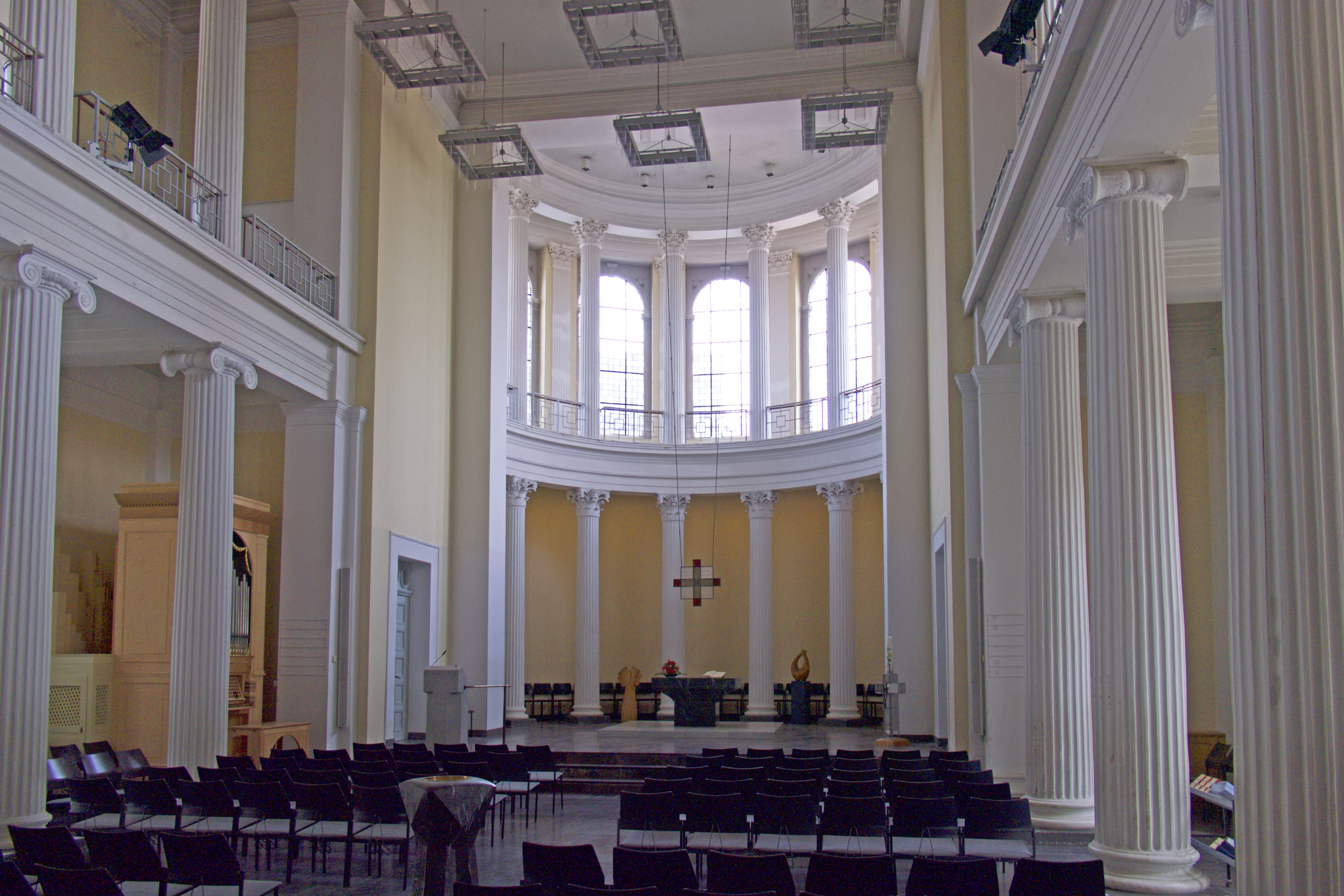 Protestant Church Solingen-Wald, interior, view to East